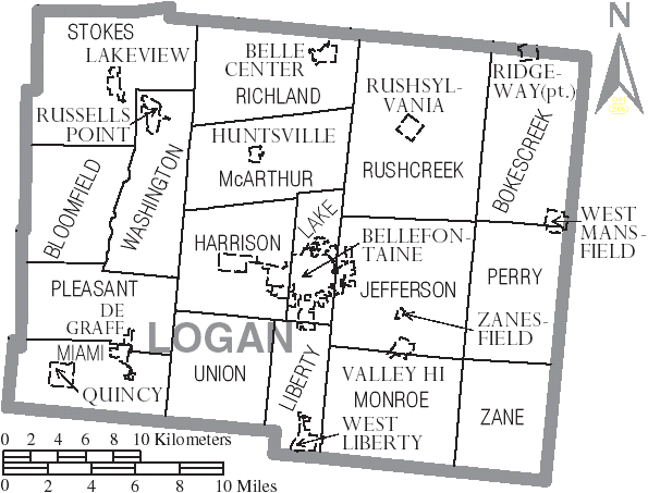 Map of Logan County, Ohio, United States with township and municipal boundaries